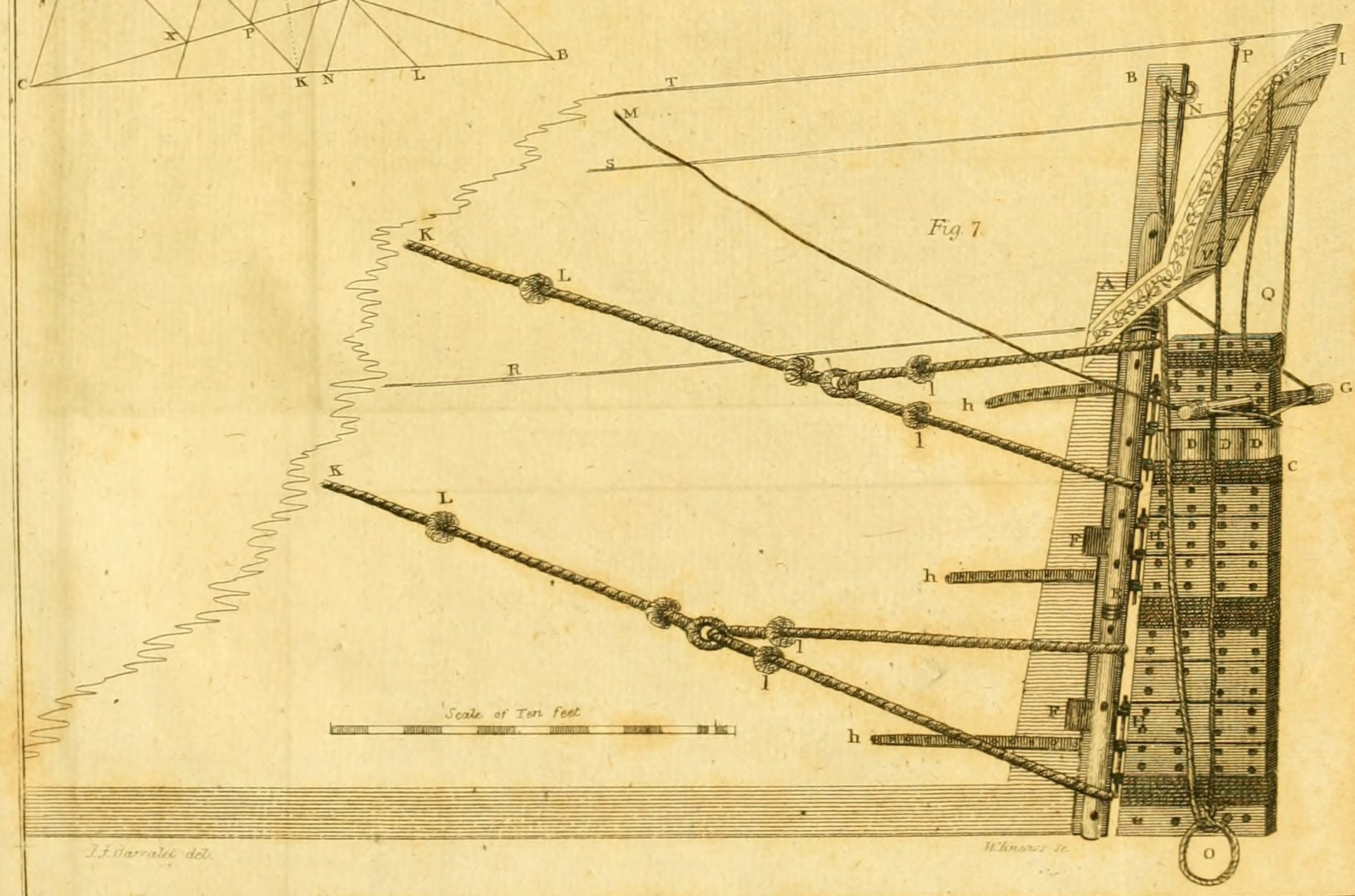 Drawing of William Mugford's Temporary Rudder